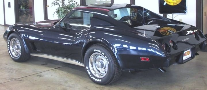 1977 Chevrolet Corvette